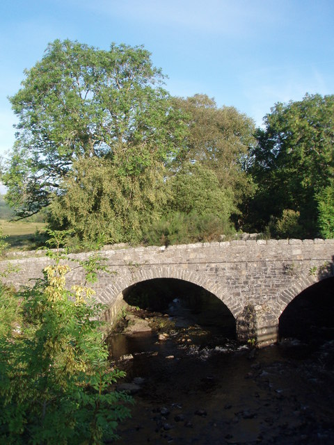 Polharrow Bridge This beautiful stone bridge has now been replaced with a faceless concrete structure - see other image.